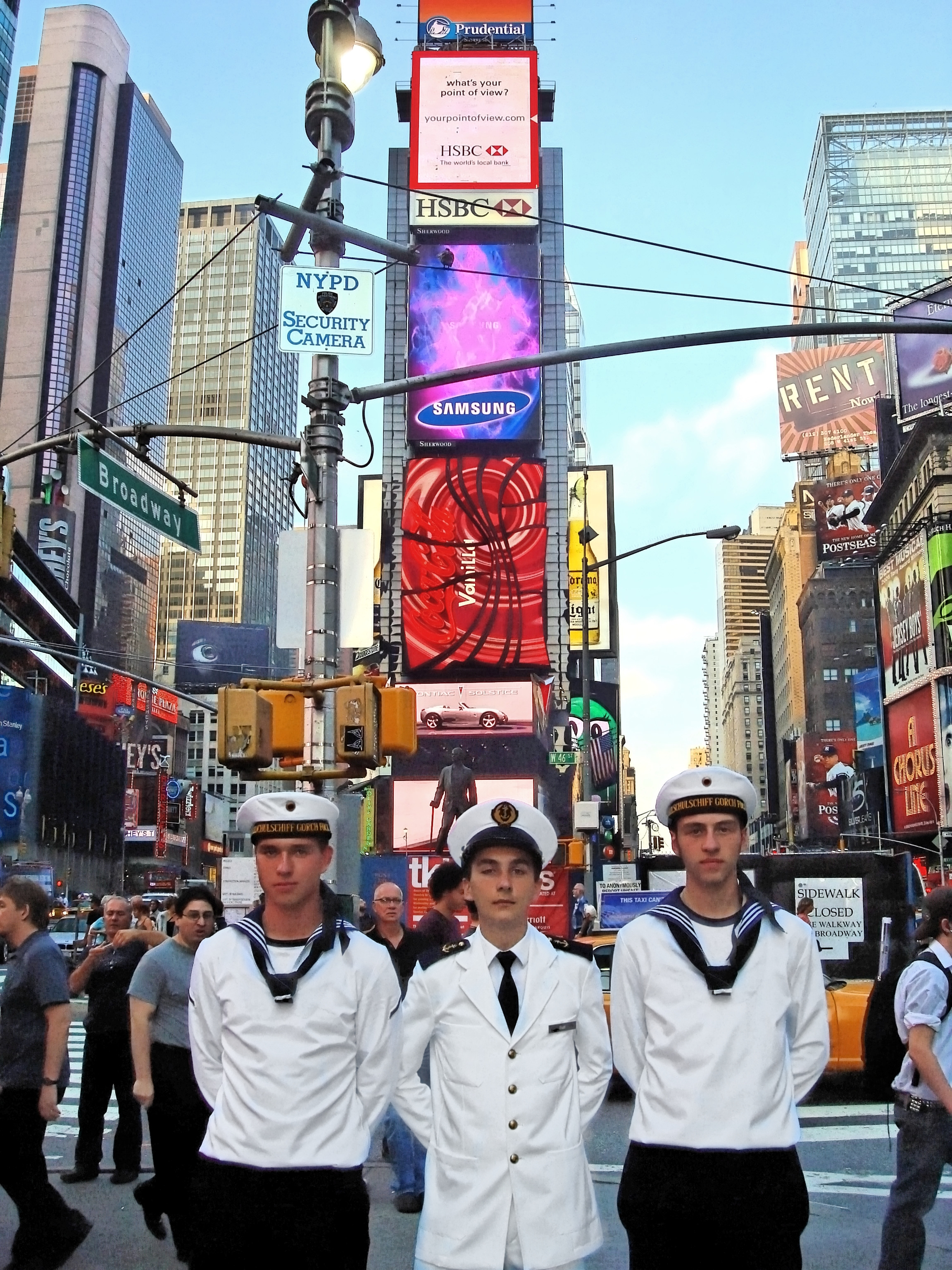 Two young German Navy sailors of the training sail ship "Gorch Fock" posing with a french comrade for a photo on Time Square, NYC.